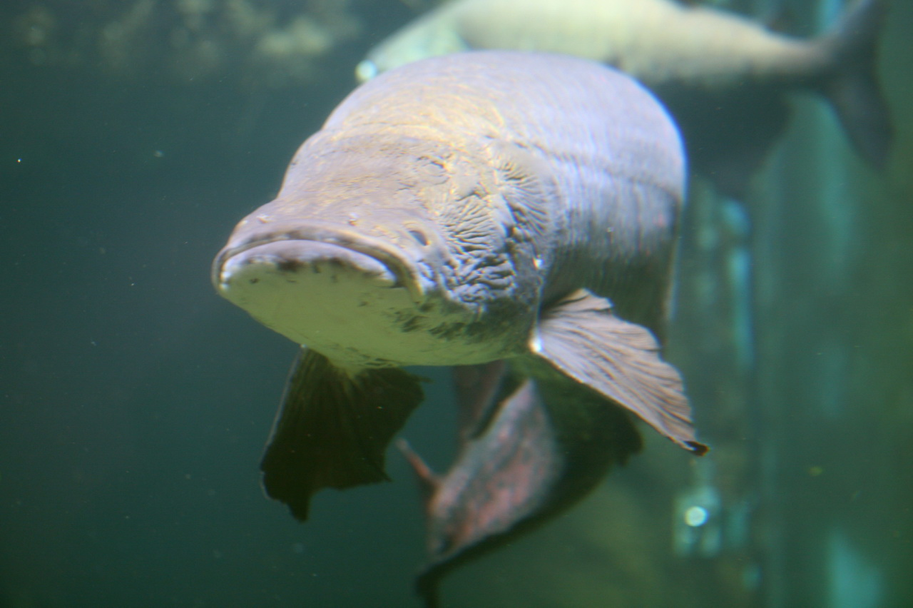 The Arapaima is hunted and utilized in many ways by local human populations. Arapaima are harpooned or caught in large nets and the meat is said to be delicious. One individual can yield as much as 70 kg of meat. In addition, the Arapaima's bony tongue is often used to scrape cylinders of dried guarana, an ingredient in some beverages, and the bony scales are used as nail files.